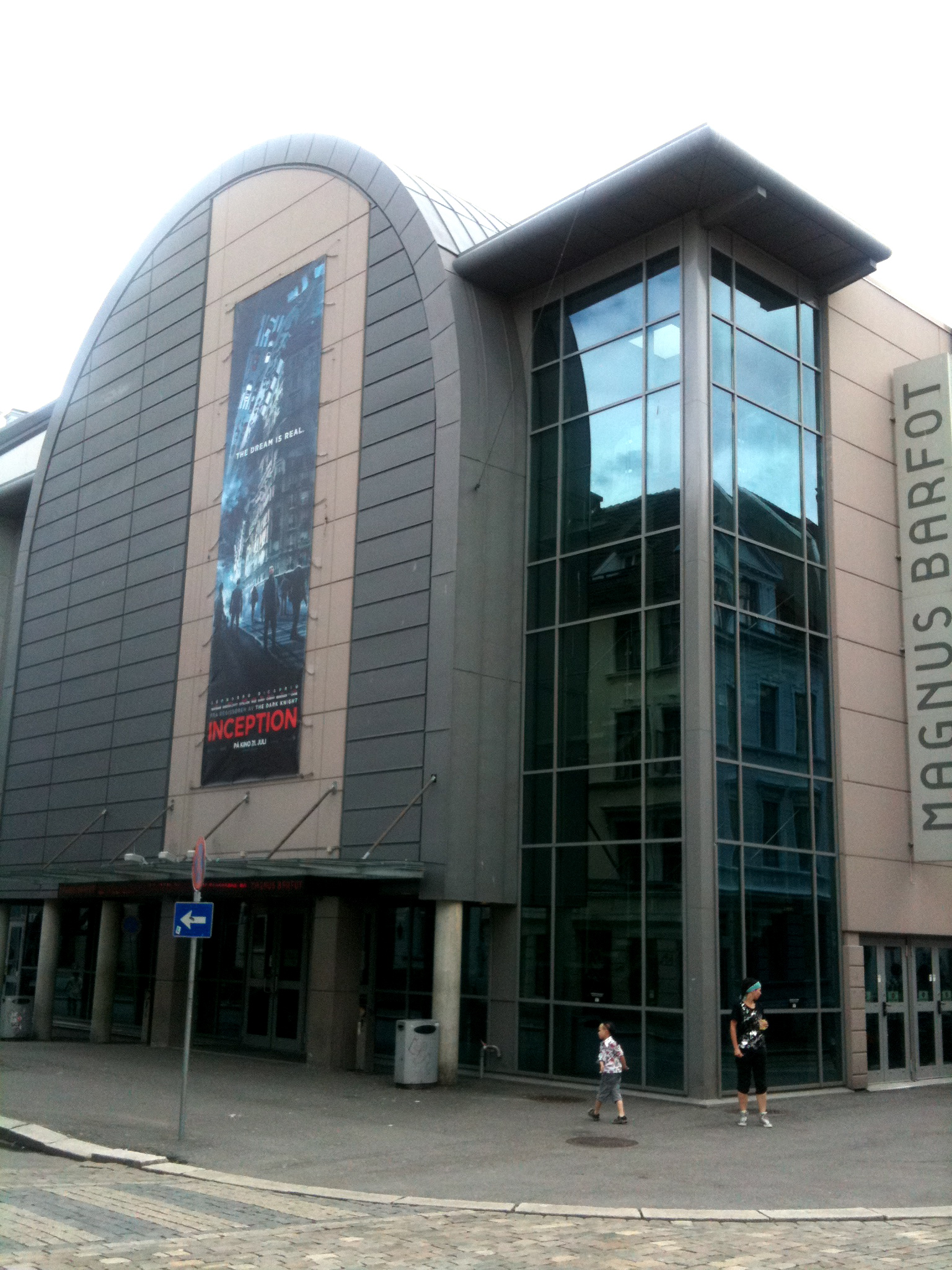 Bergen cinemas department Magnus Barfot in Bergen, Norway